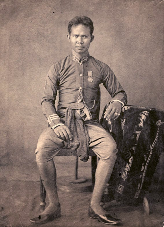 Photograph of Prince Vichaichan